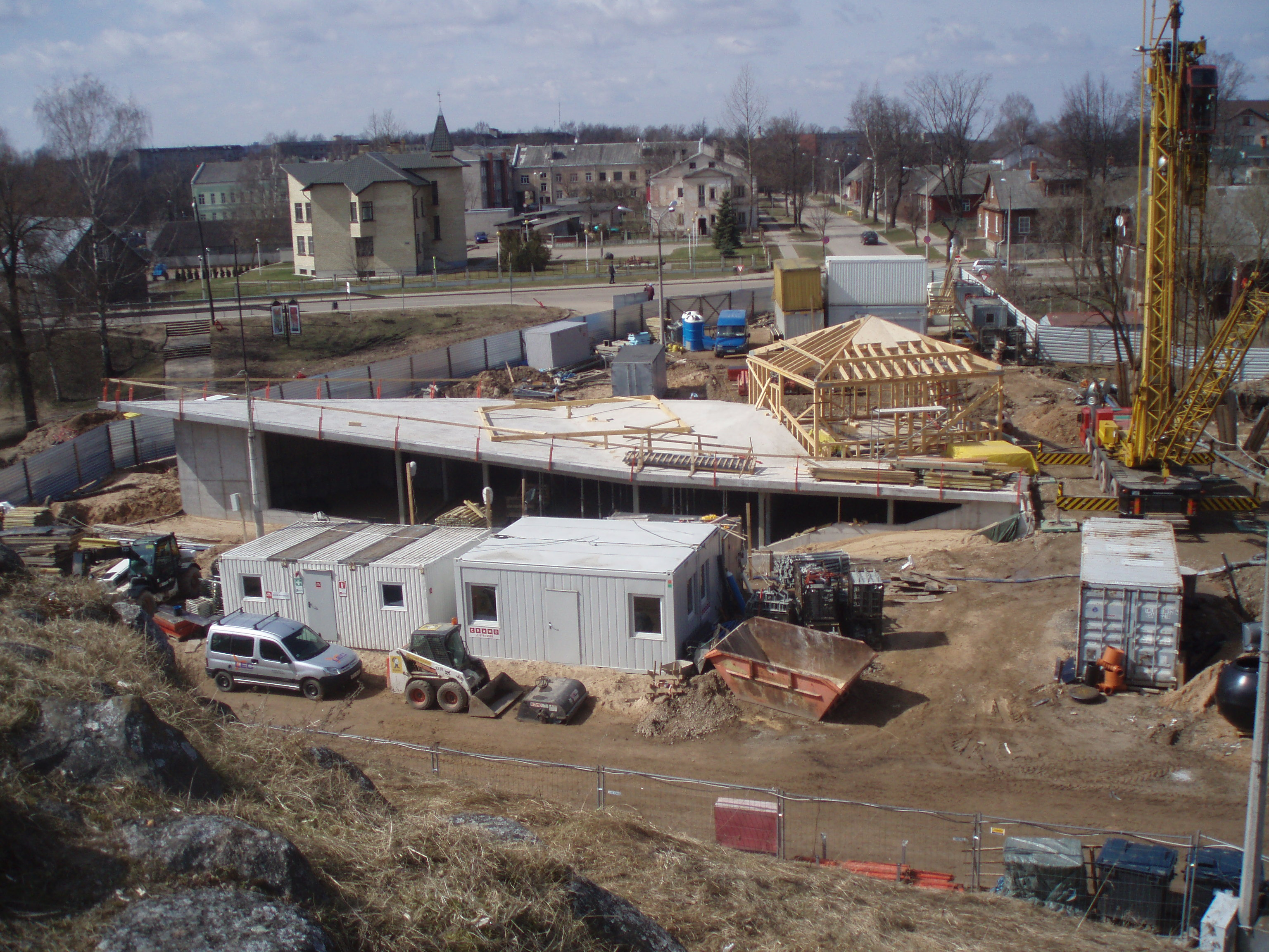 Caran d'Ache in Rēzekne.